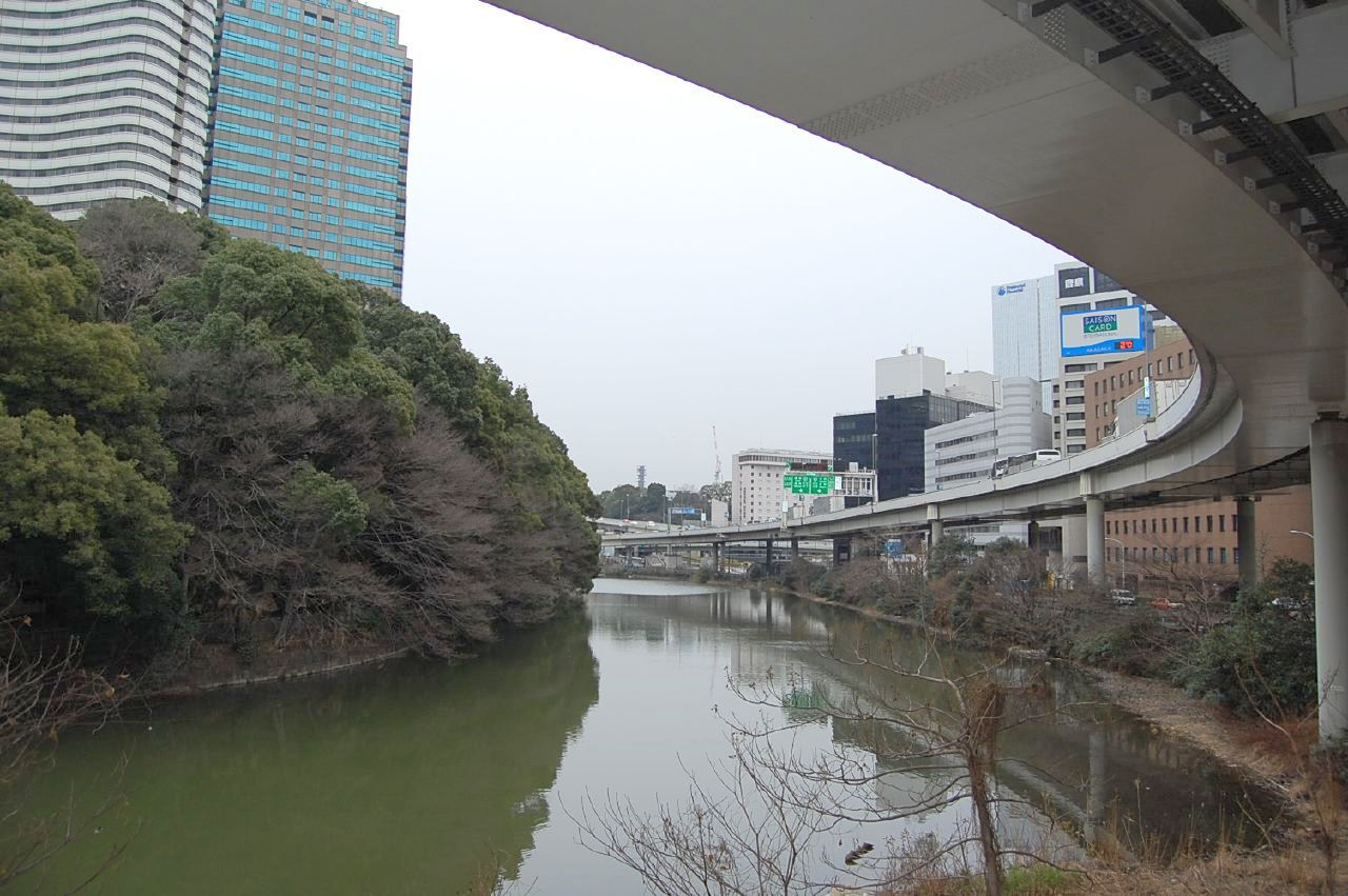 Benkeibori (弁慶堀) from the Flickr